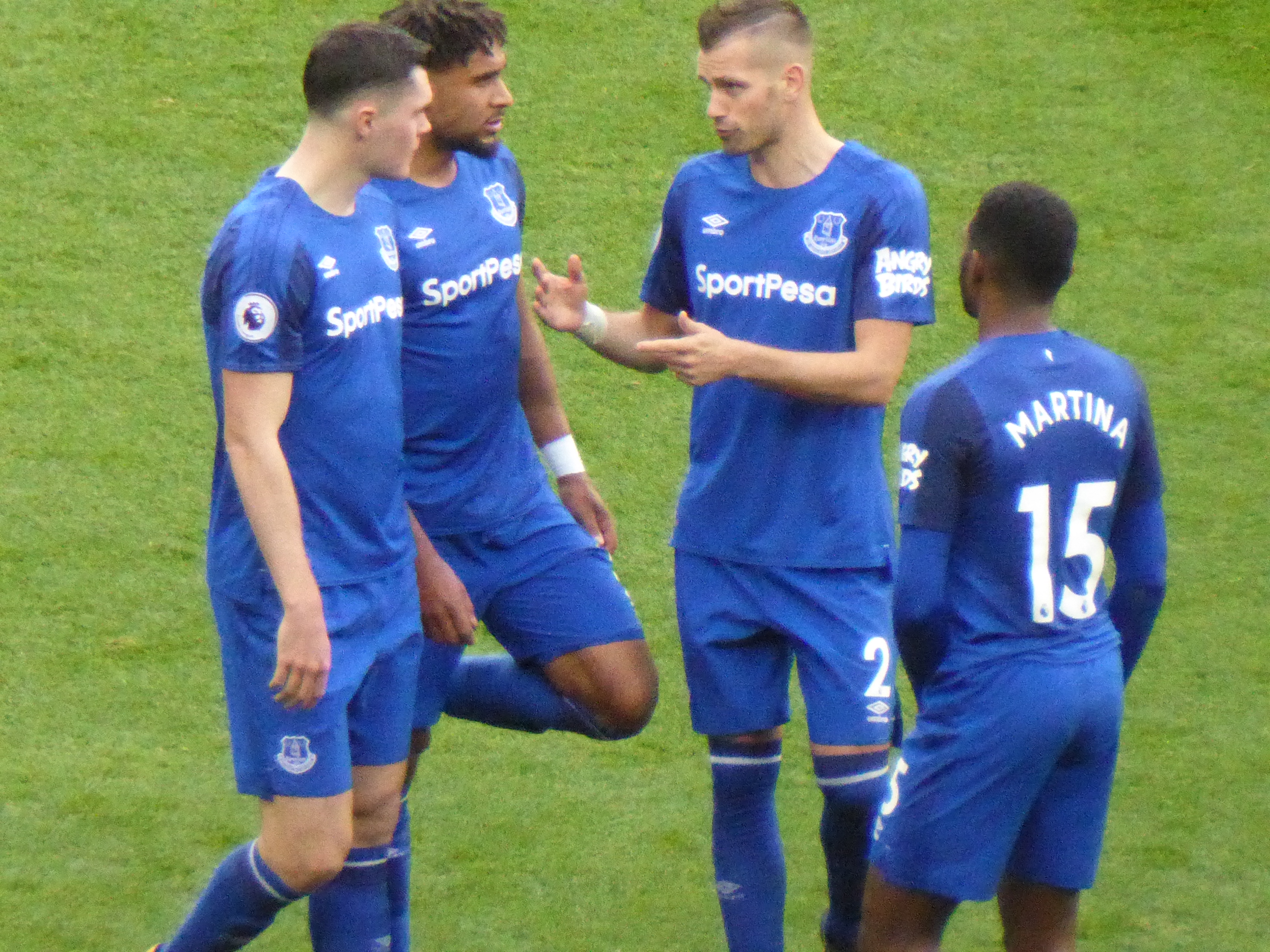 Manchester United v Everton (4-0), Premier League, Old Trafford, Manchester, Greater Manchester, England, 17 September 2017